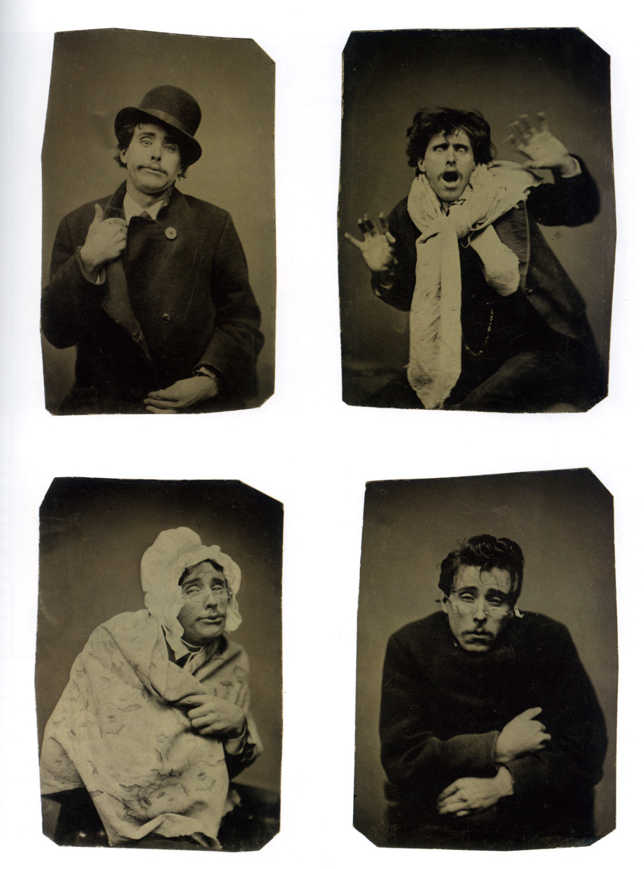 The actor and performer Fawdon Vokes (Walter Fawdon) (1844-1904) - Unknown photographer - probably in Philadelphia (1872)